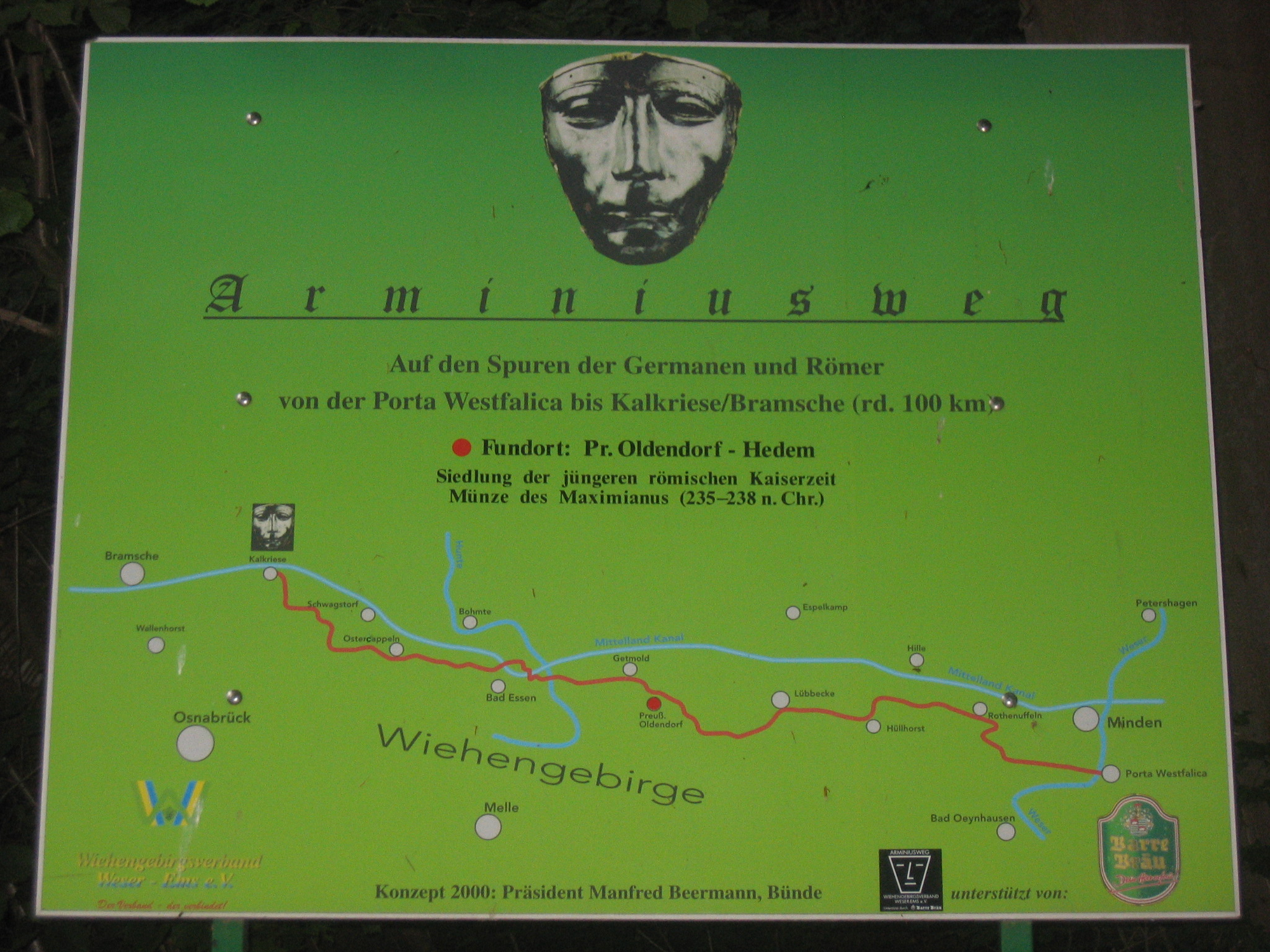 Hiking trail sign in Preußisch Oldendorf, District of Minden-Lübbecke, North Rhine-Westphalia, Germany.